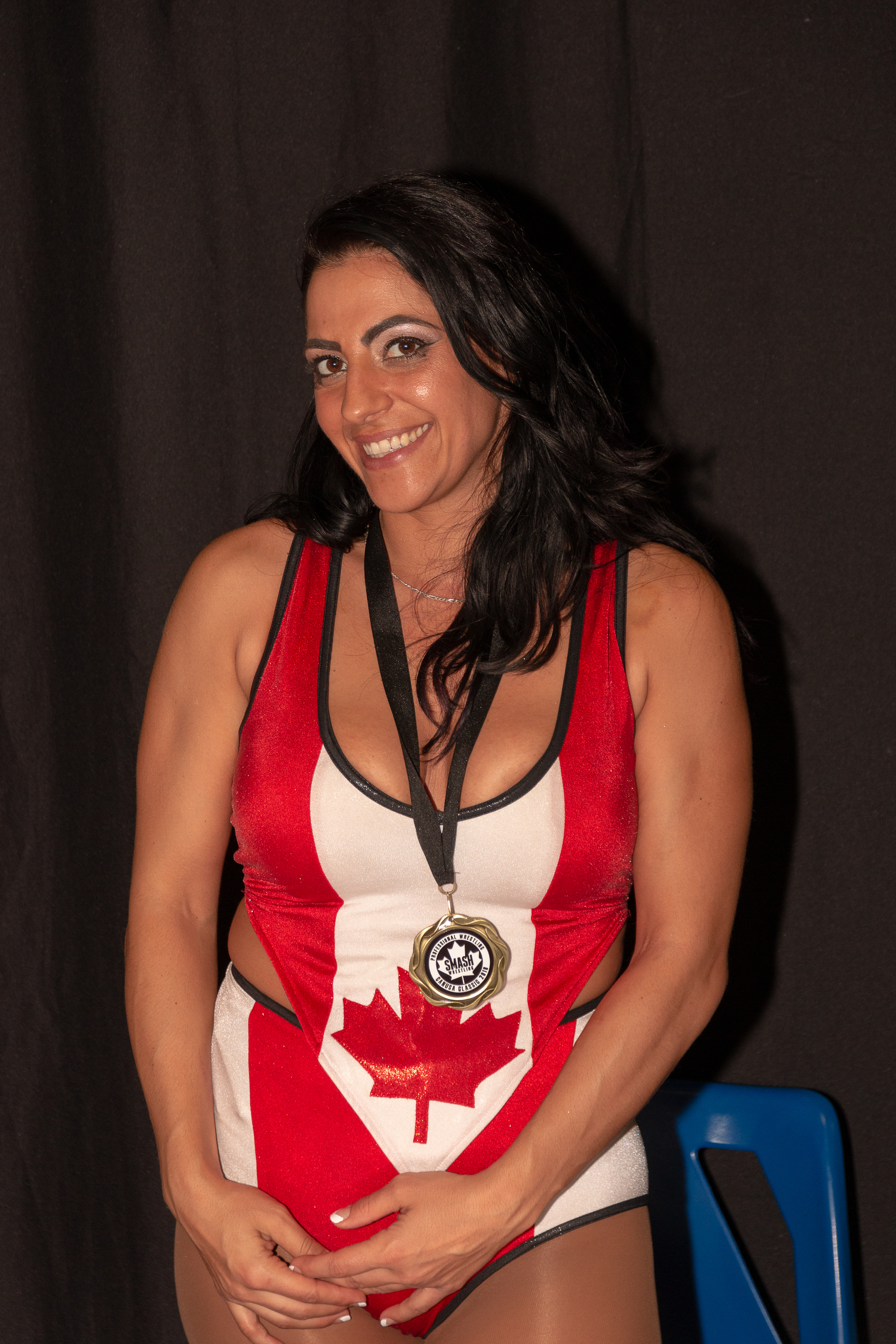 Pro wrestler KC Spinelli photographed post-event at Smash Wrestling's Canusa 2018 show in London, ON